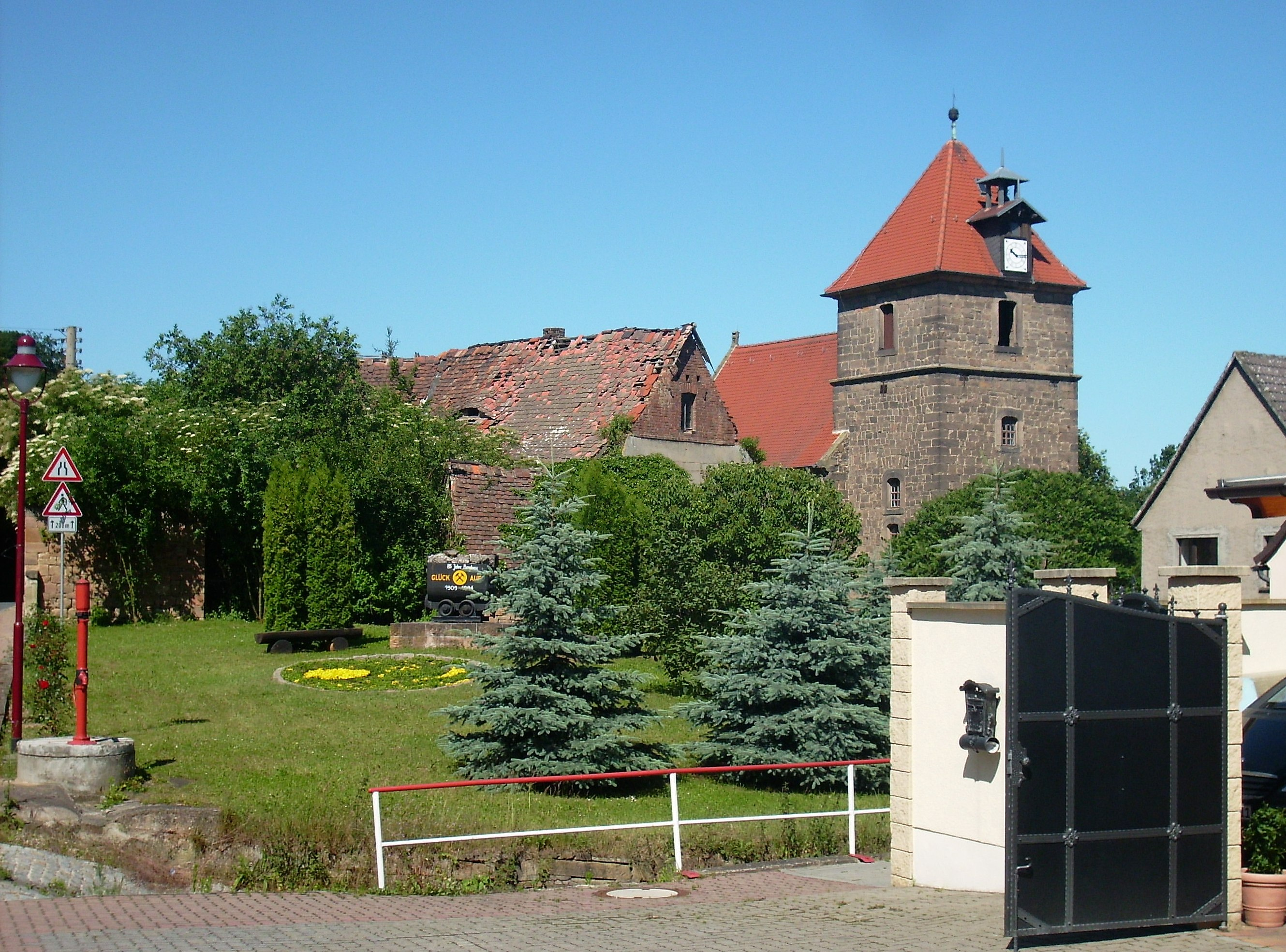 Near the church in Grosswangen (Nebra, district of Burgnlandkreis, Saxony-Anhalt)